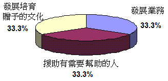 About the distribution of profit under Economy of Communion (EoC)